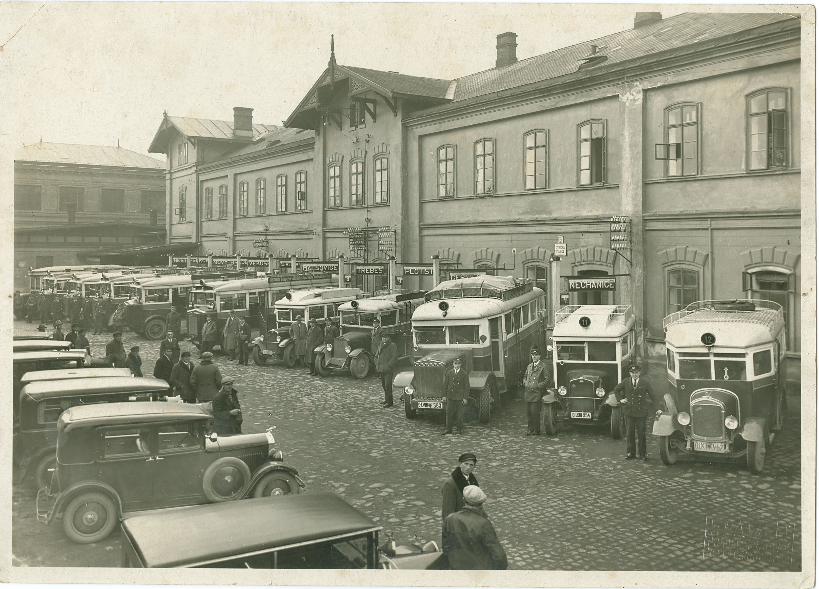 The nonexistent railway station in Hradec Králové. Built in 1871. Was found at the same place, what the present station Hradec Králové hlavní nádraží.